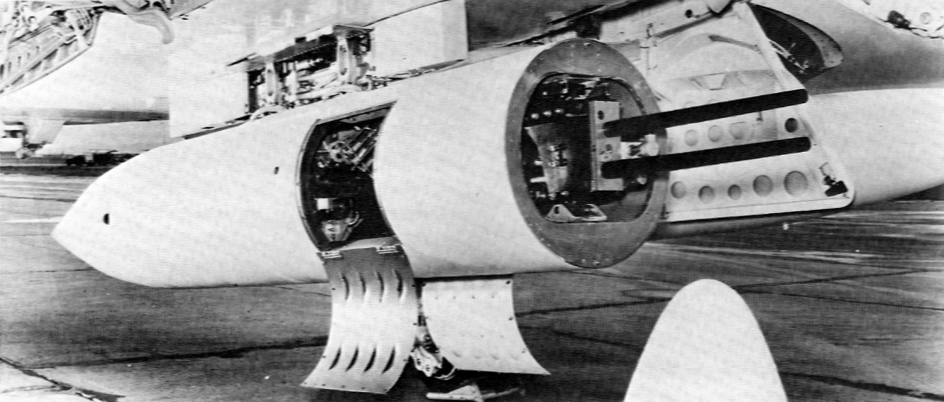 A Mk 4 HIPEG gun pod mounted on the centerline station of a U.S. Navy Douglas A4D-2 Skyhawk, circa 1958, showing the Mk 11 Mod 5 20 mm cannons.